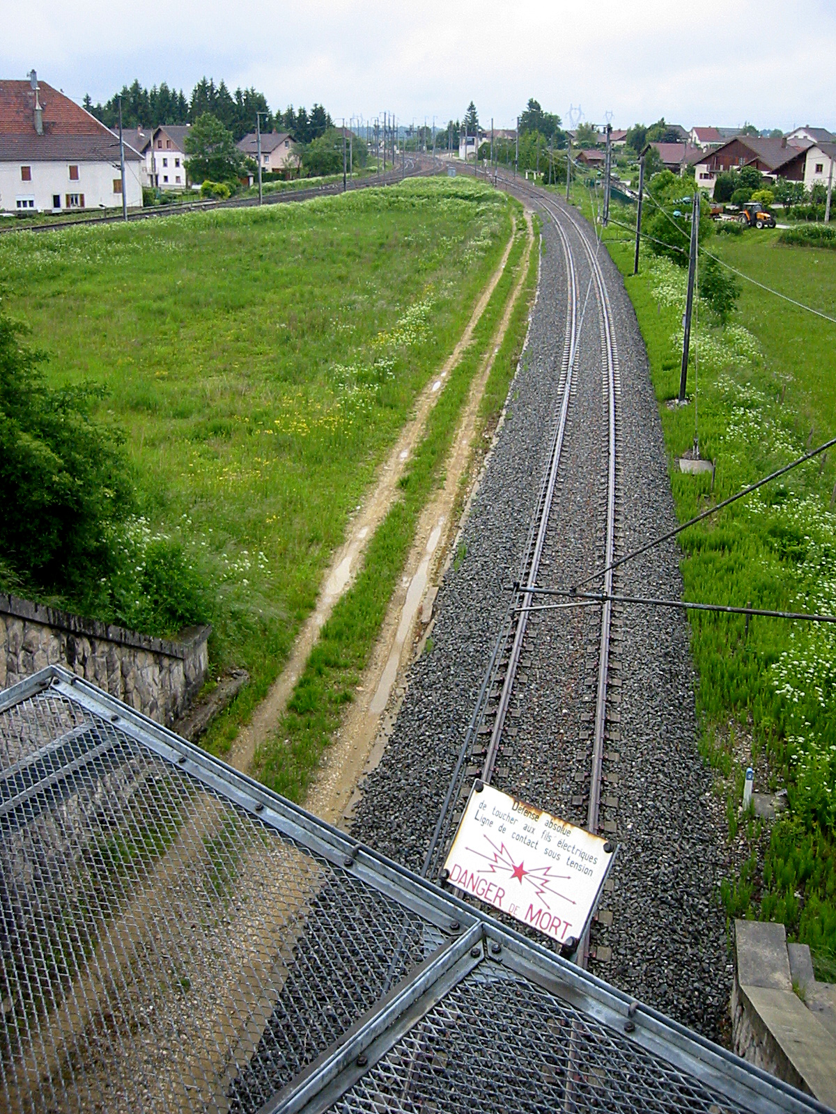 SNCF railway lines in Frasne (F), left from Lausanne , right from Bern - Pontarlier